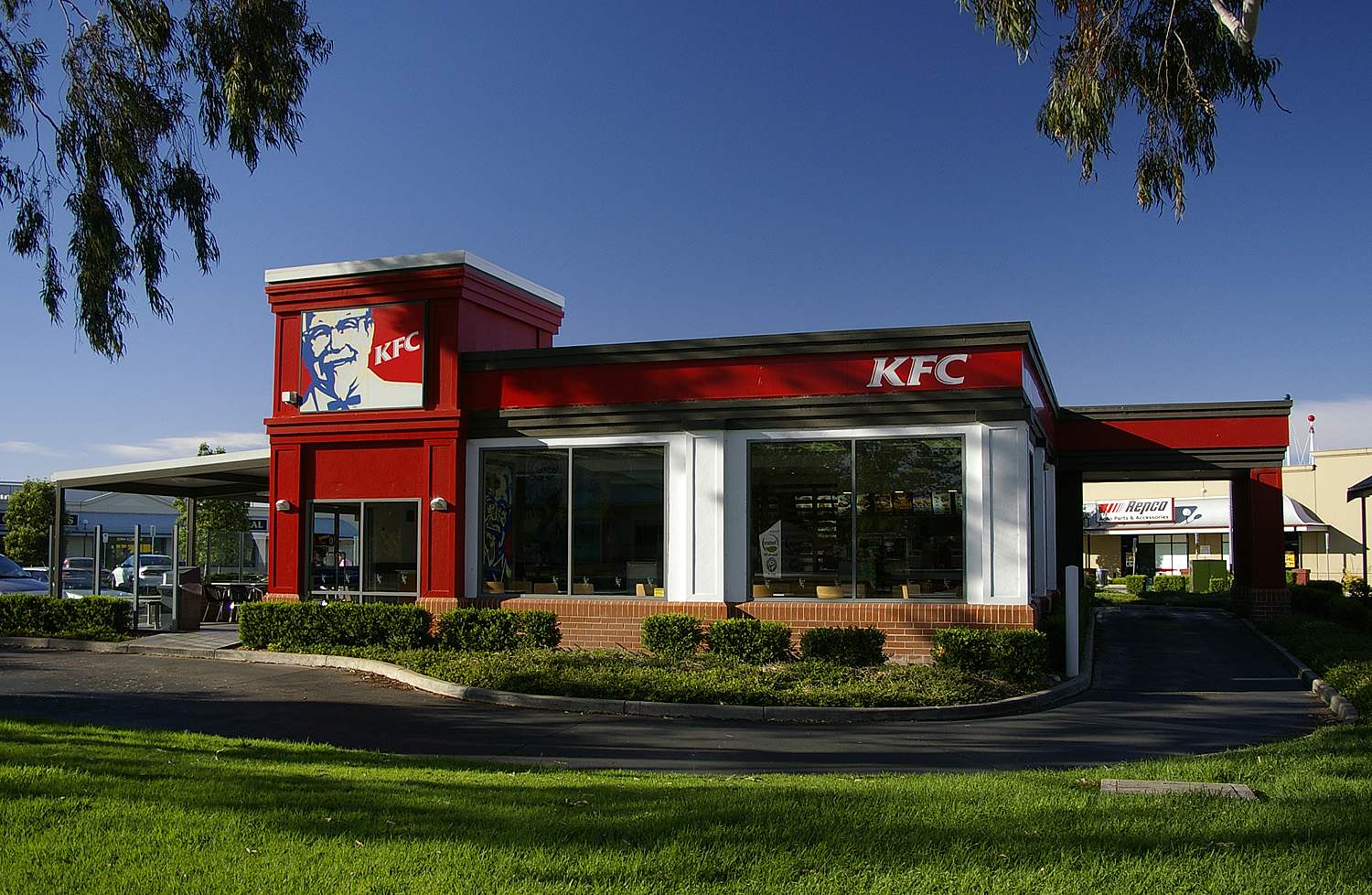 KFC Home Base located in Wagga Wagga, New South Wales.